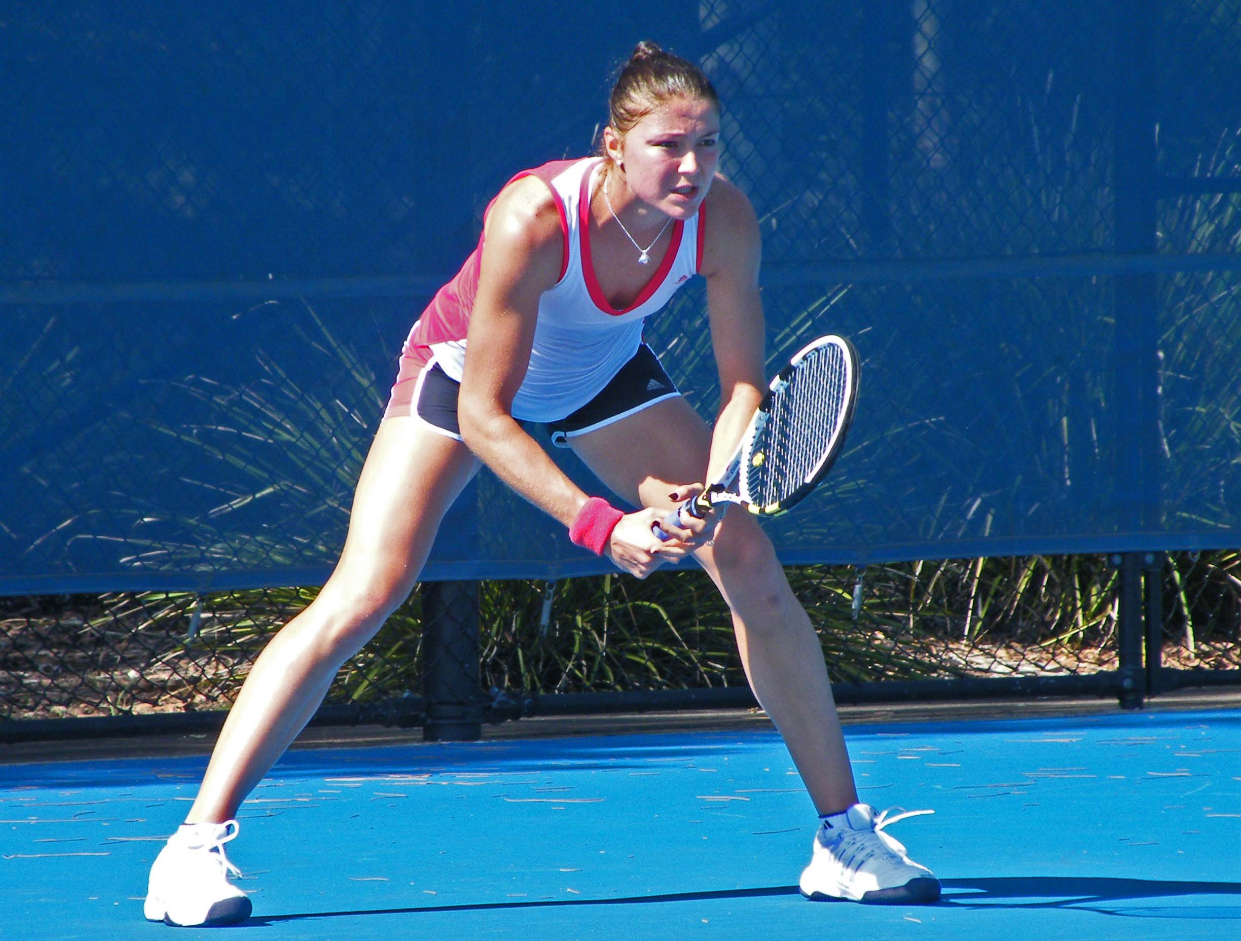 Dinara Safina at the 2010 Sydney Medibank International.